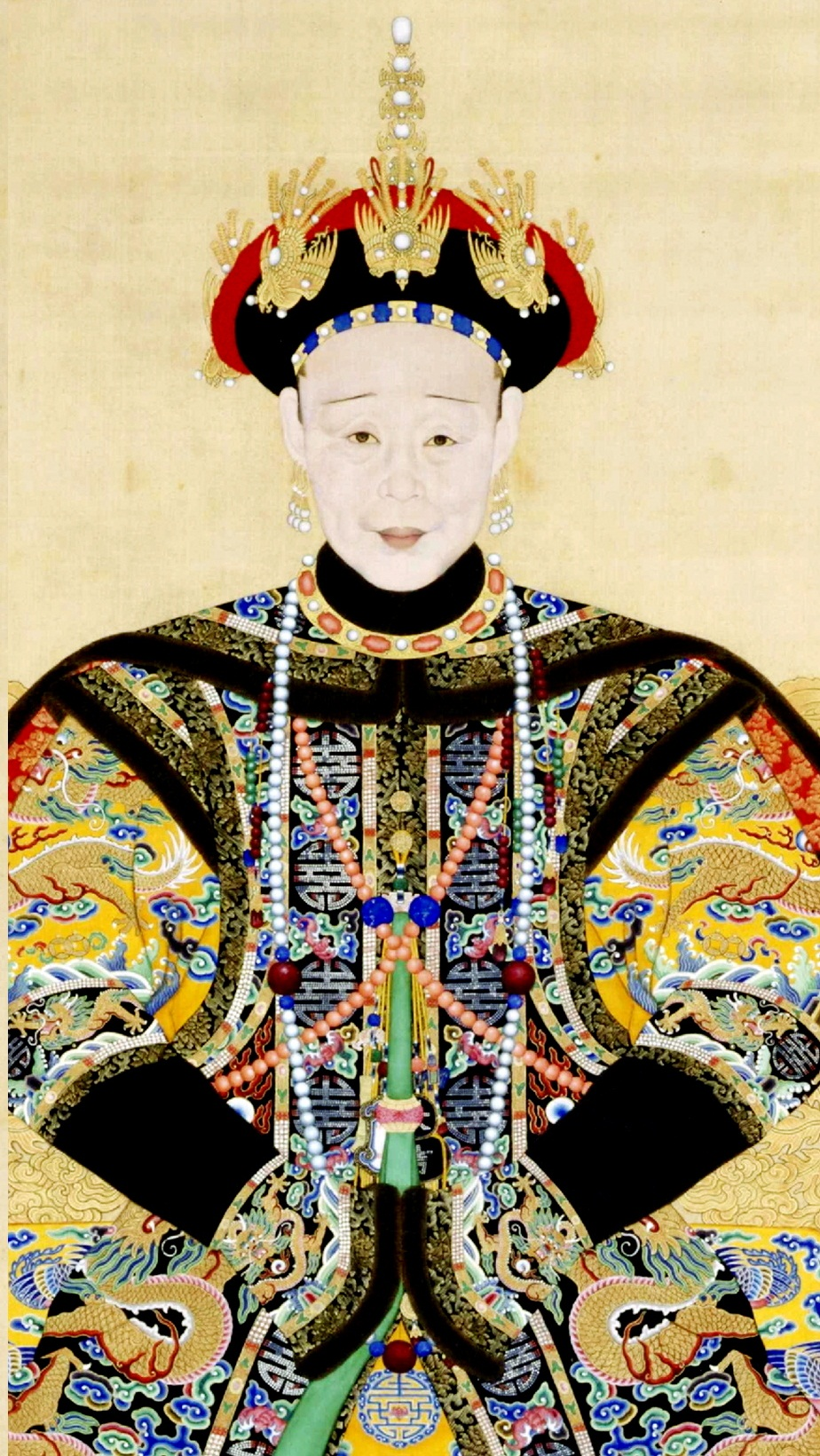 Empress He Rui, second wife of Emperor Jiaqing of Qing dynasty